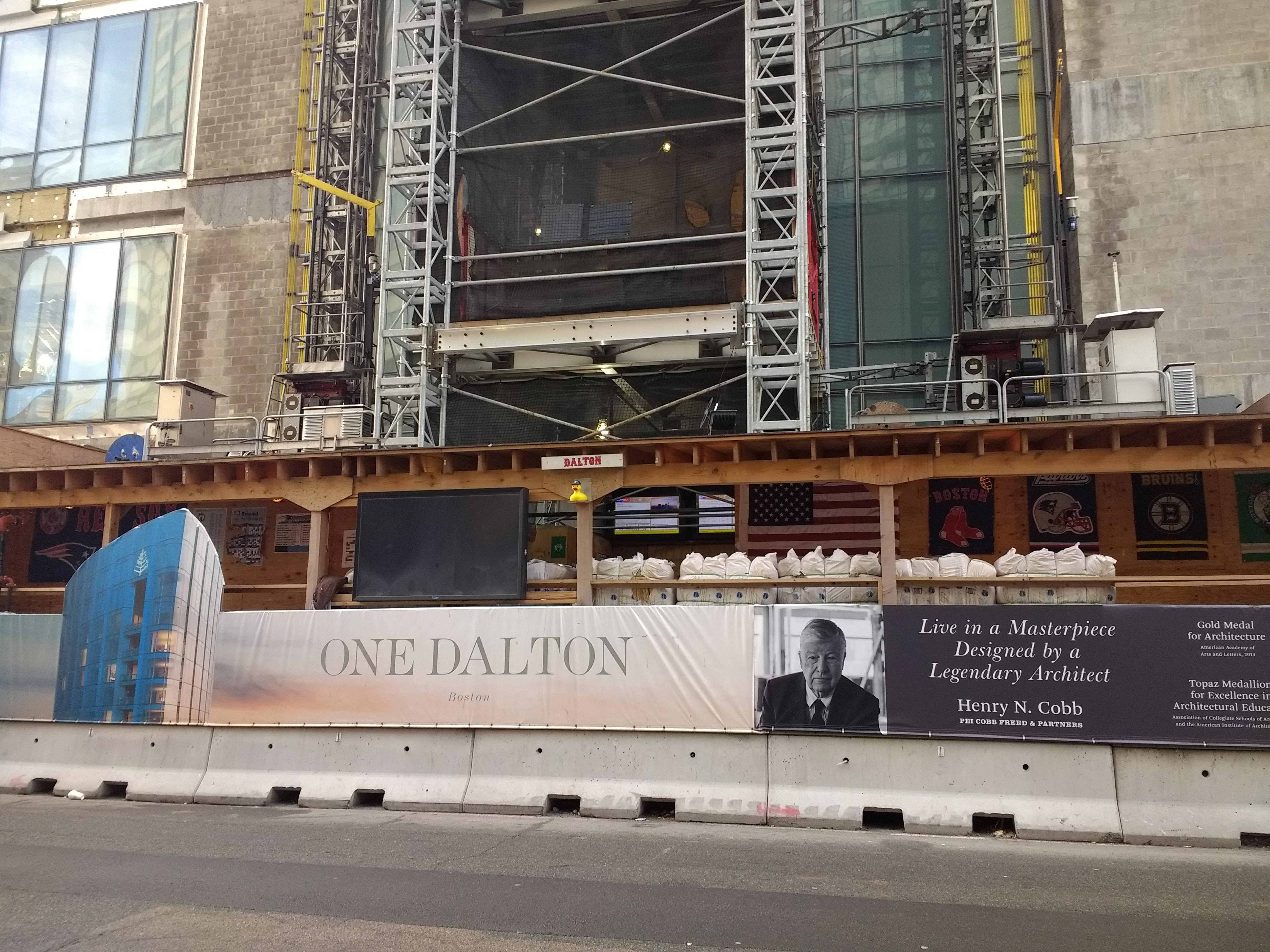 December 2018 street level construction of One Dalton, The Four Seasons Hotel and Residences in Boston, Massachusetts.